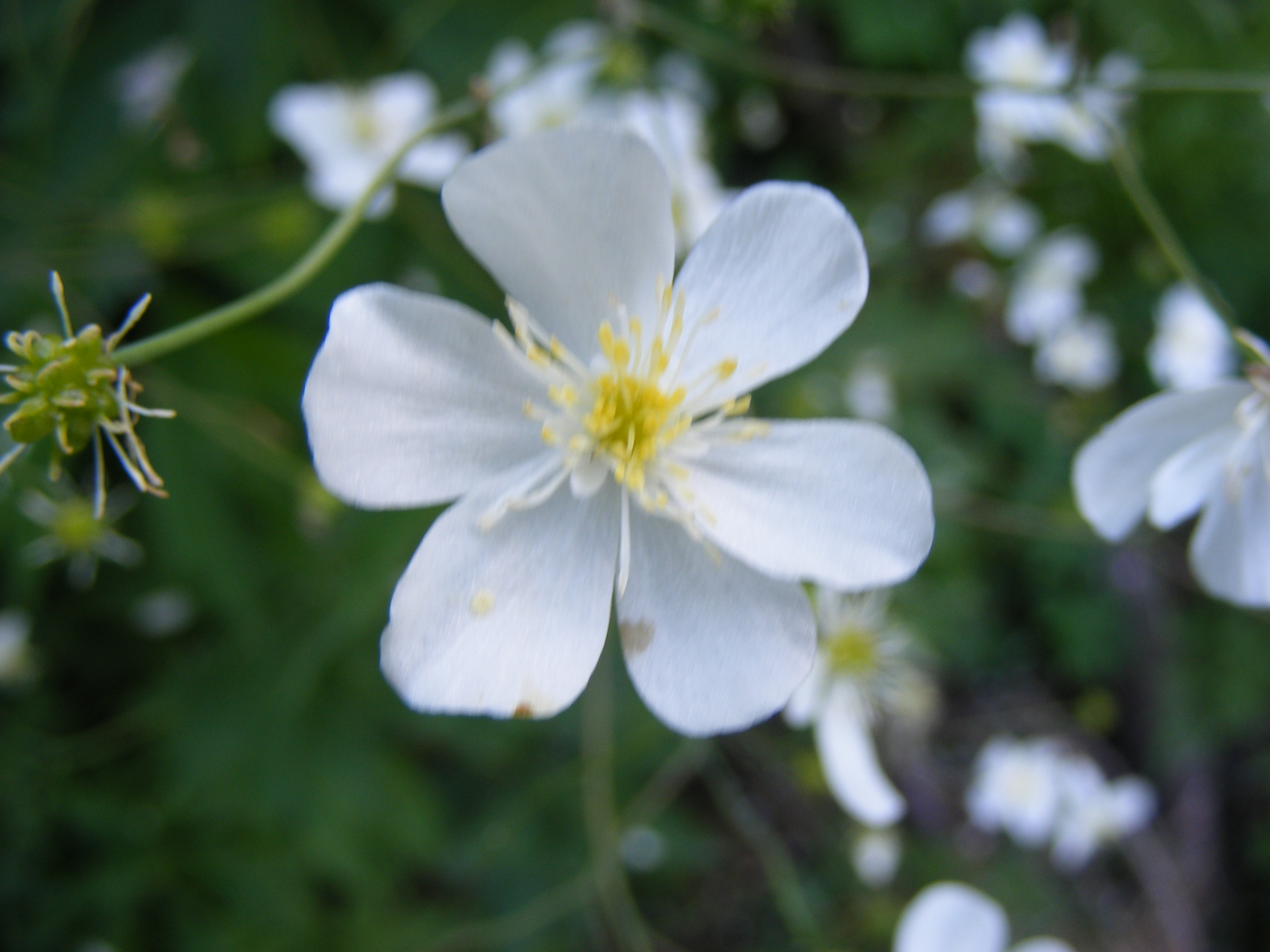 Ranunculus platanifolius Ranunculus platanifolius